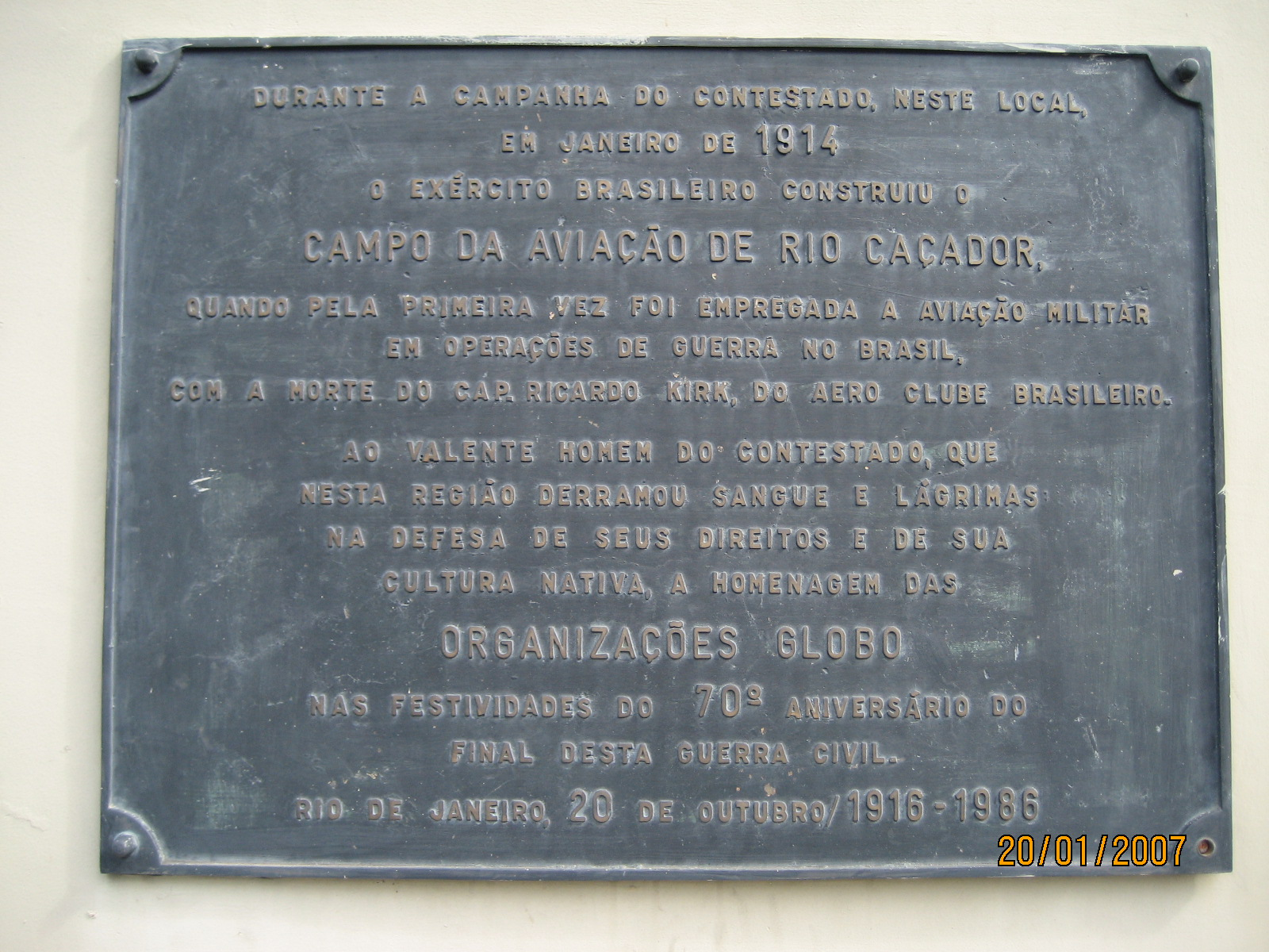 Monument - Captain Kirk - Contestado Museum - Caçador - SC -Brazil Author: Edson L. Pedrassani Source: Own work 2007-01-20